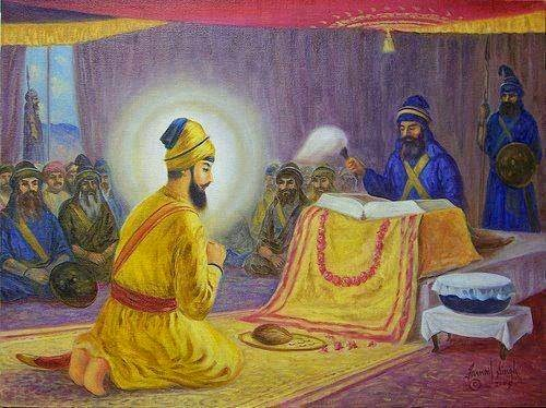 Early 20th century Sikh painting, depicting Guru Gobind Singh at Nanded, bowing to Guru Granth Sahib